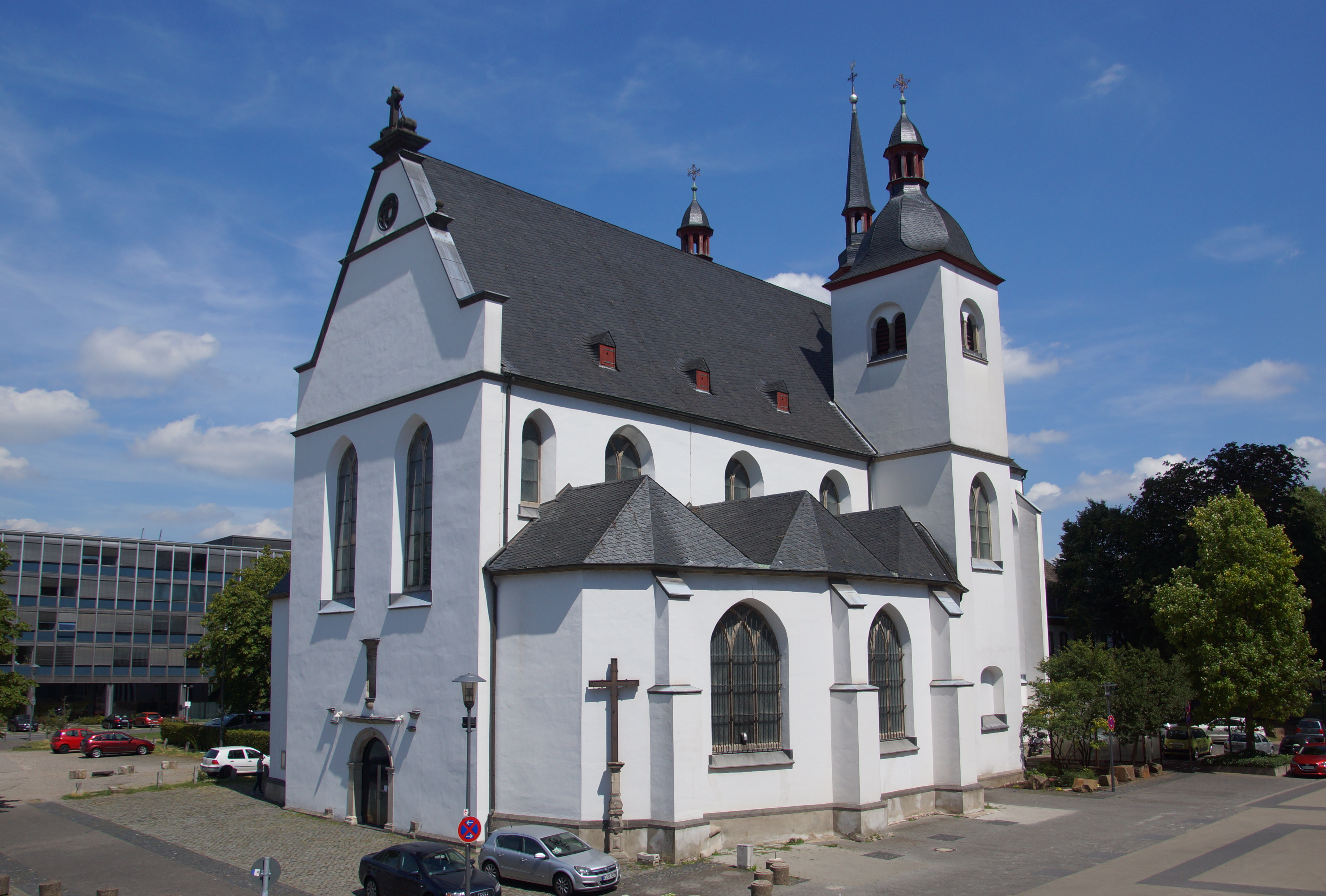 Deutz, St. Alt-Heribert This image shows a heritage building in Germany, located in the North Rhine-Westphalian city Köln (no. 1092).